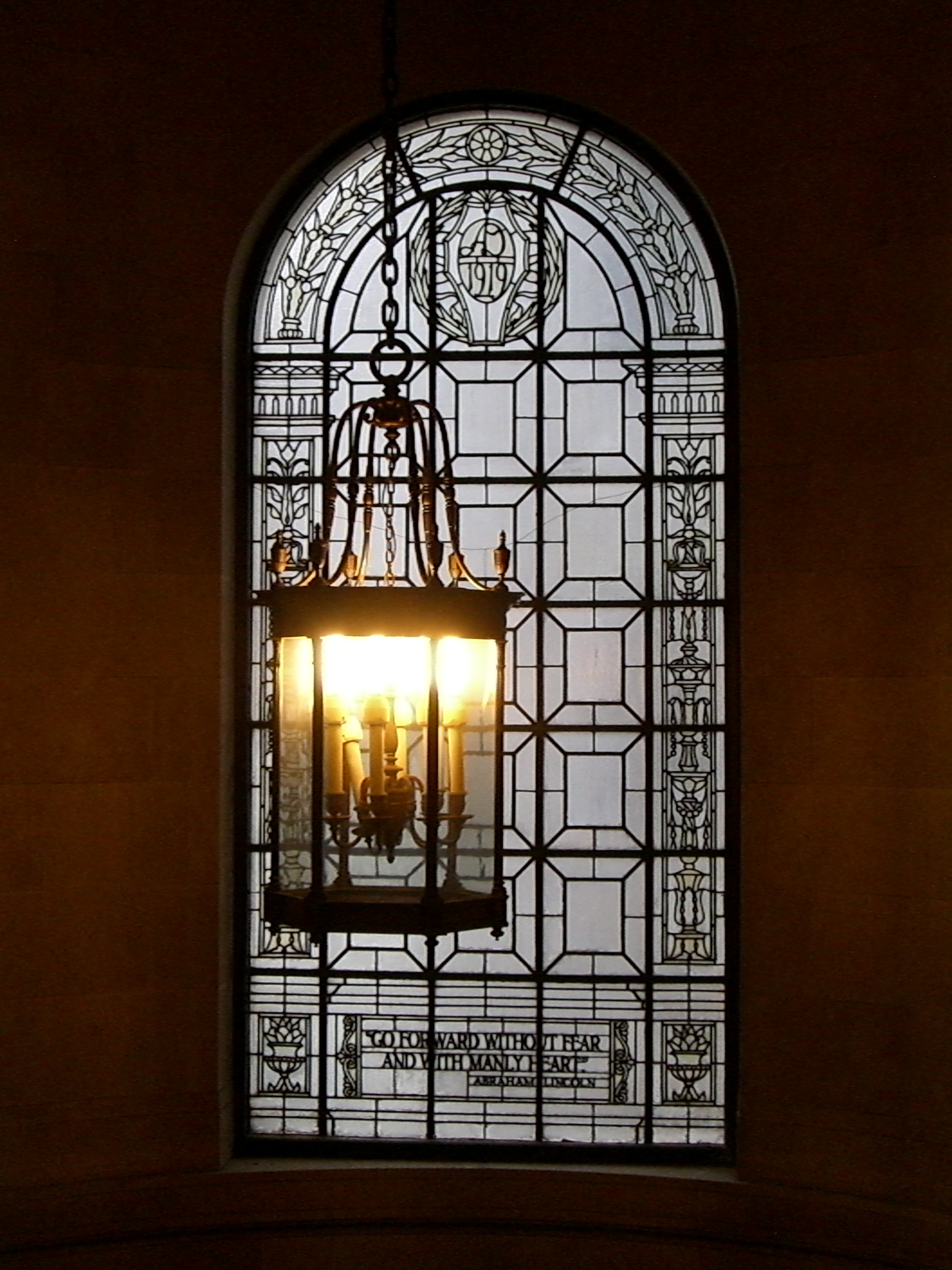 Chase Bldg.